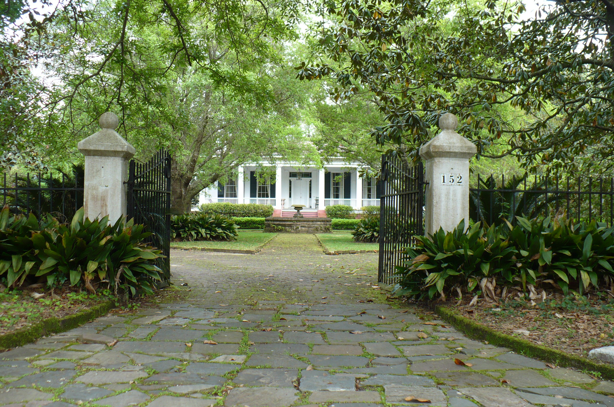 Marshall-Dixon House (c. 1853) at 152 Tuthill Lane in Mobile, Alabama.